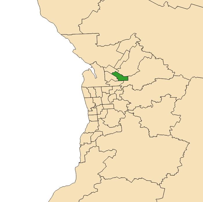 Electoral district 2018 boundaries shown in green